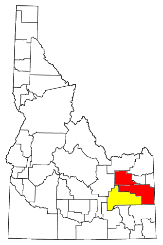 Locator map of the Idaho Falls-Blackfoot Combined Statistical Area in the southeastern part of the U.S. state of Idaho. The two components of the CSA are colored separately: Idaho Falls Metropolitan Statistical Area: red Blackfoot Micropolitan Statistical Area: yellow